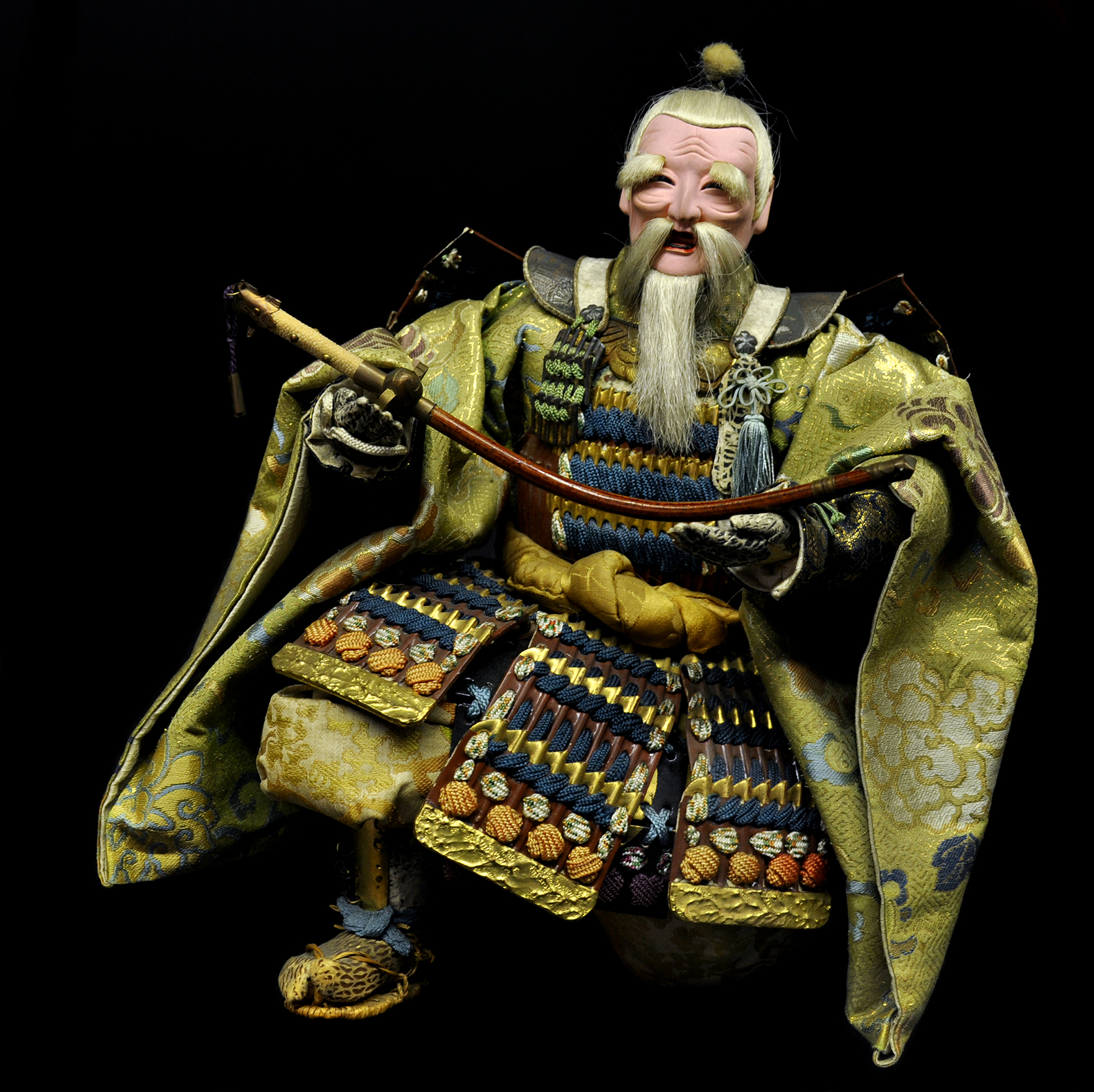 Doll ( musha-ningyo ) featuring Takenouchi-No-Sukune, minister of the emperor Ojin; end of the Edo period, 19th century, Japan . Ann and Gabriel Barbier-Mueller Museum, Dallas (Texas) ; the photograph was taken during an exhibition in the Musée des Arts Premiers in Paris.